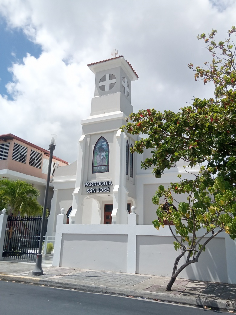 Parroquia San Jose in Luquillo, Puerto Rico